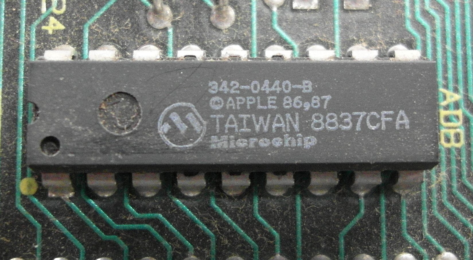 The Apple Desktop Bus implemented in an Early Microchip PIC chip in a Macintosh SE